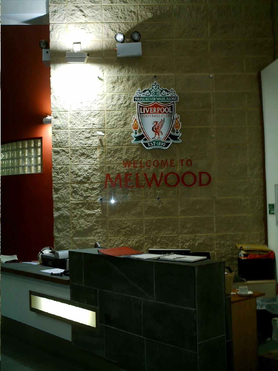 Recepción de Melwood